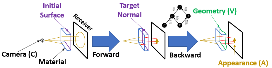 cam-geo-app